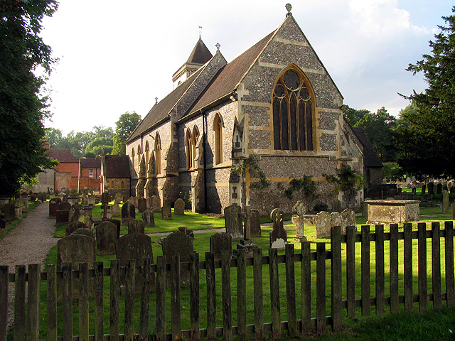 Church of England parish church of St Mary the Virgin, Speen, Berkshire, seen from the southeast